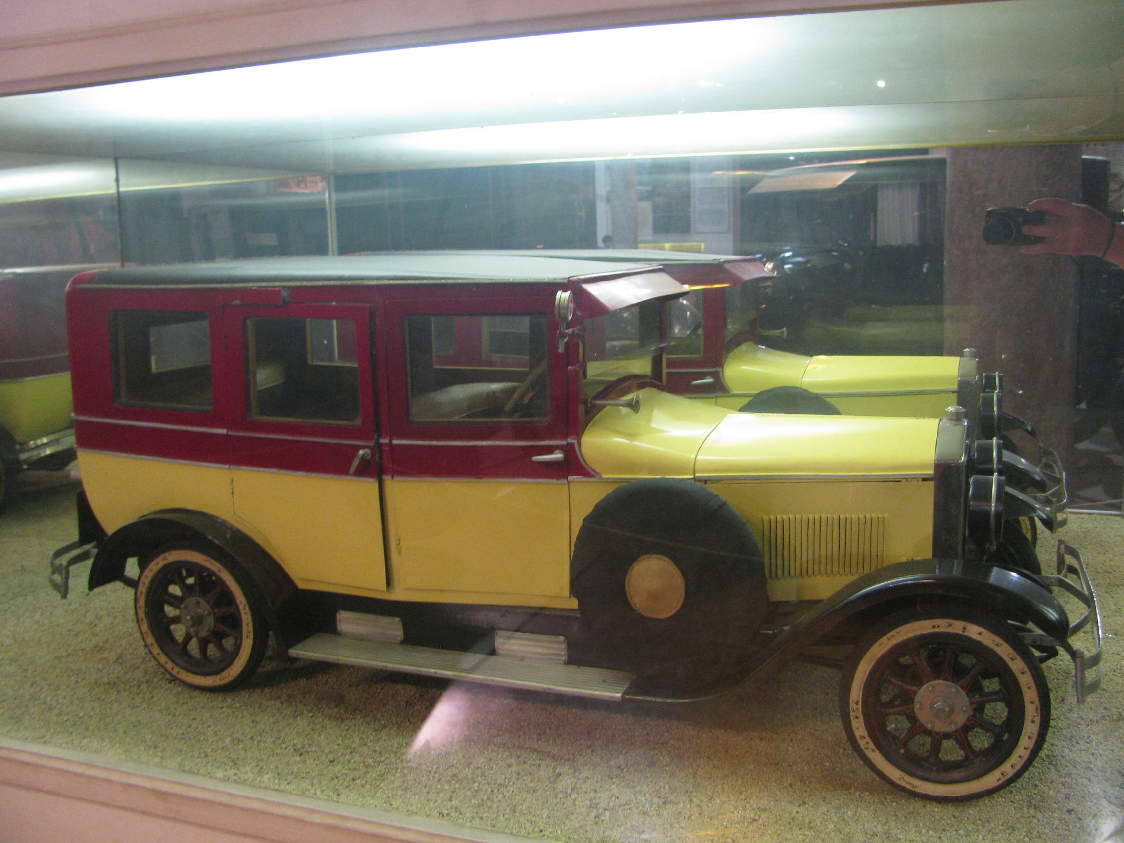 A model illustrating of Magosix sport-touring car. Magyar Általános Gépgyár started the production of these six-cylinder vehicles in 1927. All the main components apart from the engines were imported. The company went bankrupt in the great depression.